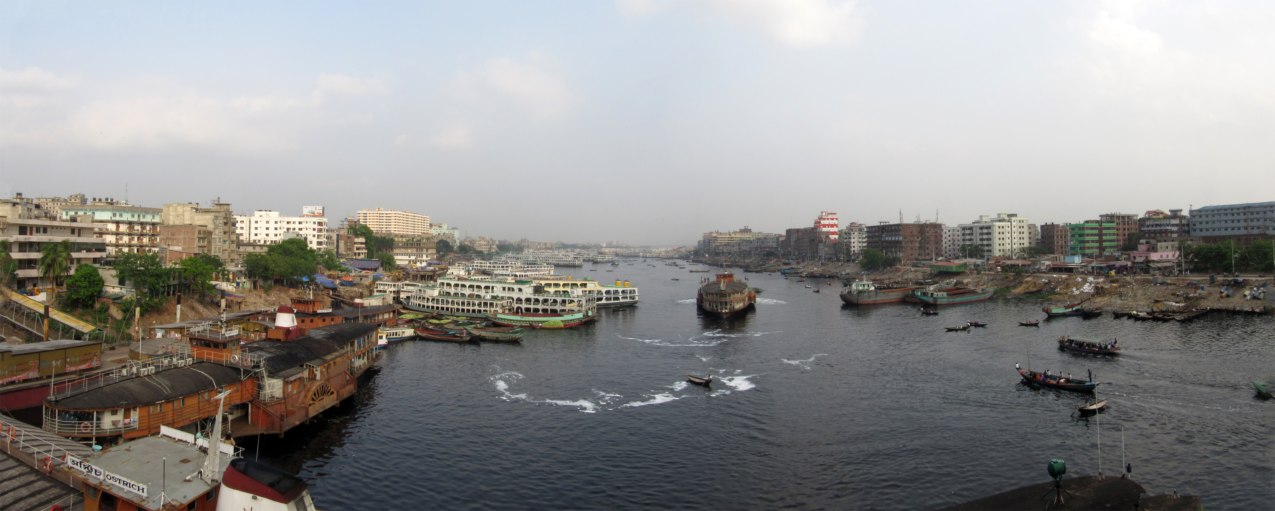 The photo, taken from over Babubazar bridge shows Sadarghat terminal on the left and Keraniganj on the right over the Buriganga river.